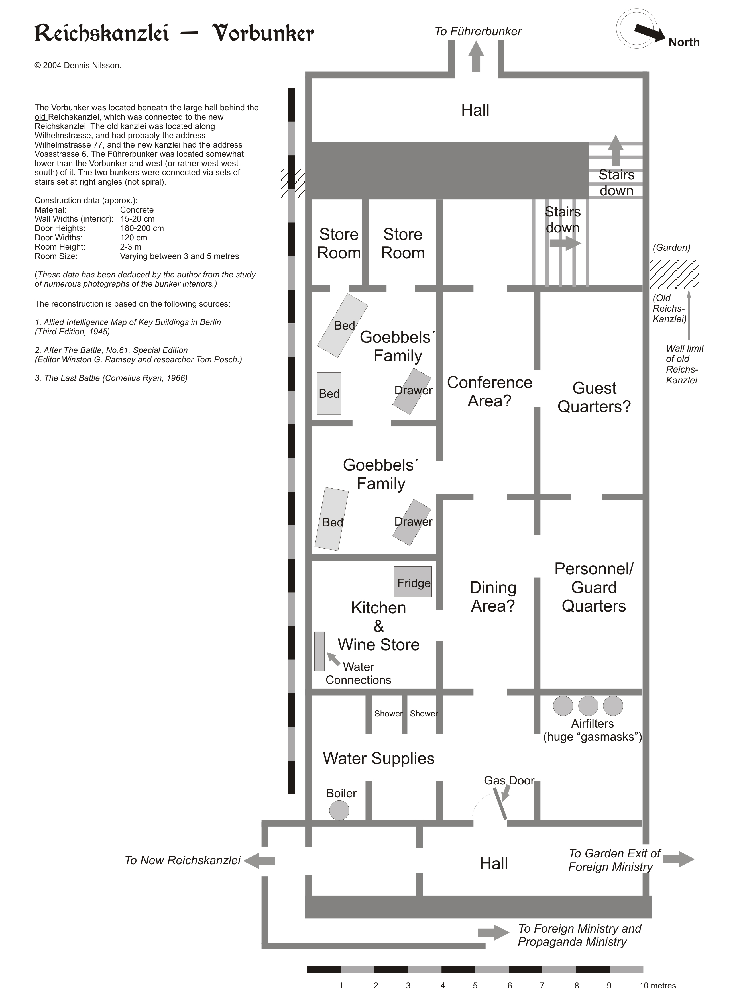 Map of the Vorbunker in Berlin, 1945. The Vorbunker was the "antechamber" bunker of the famous Fuehrerbunker. For more detailed information, please see below.